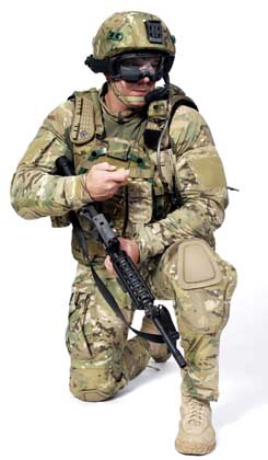 Future force warrior networked